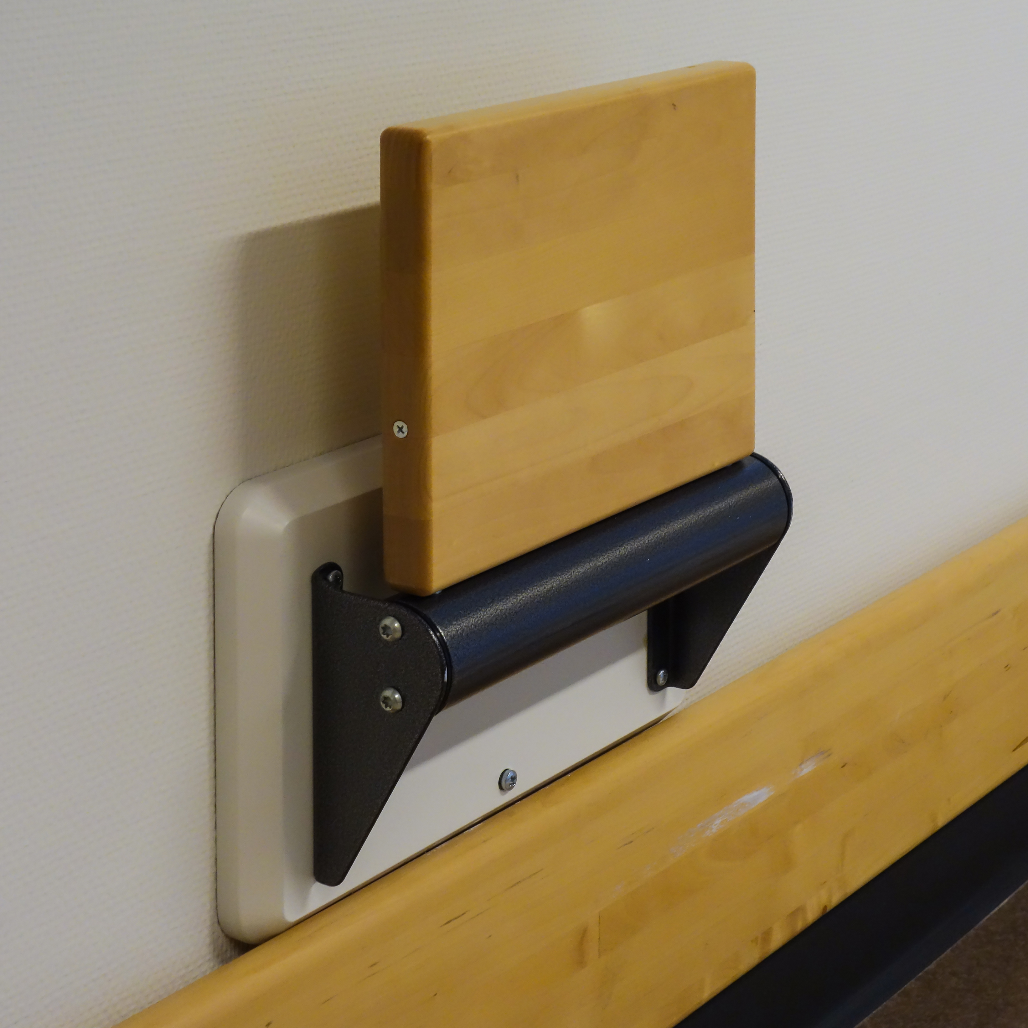 Wall chair in Norra Älvsborgs Länssjukhus (Northern Älvsborg county hospital) - NÄL, Trollhättan, Sweden.